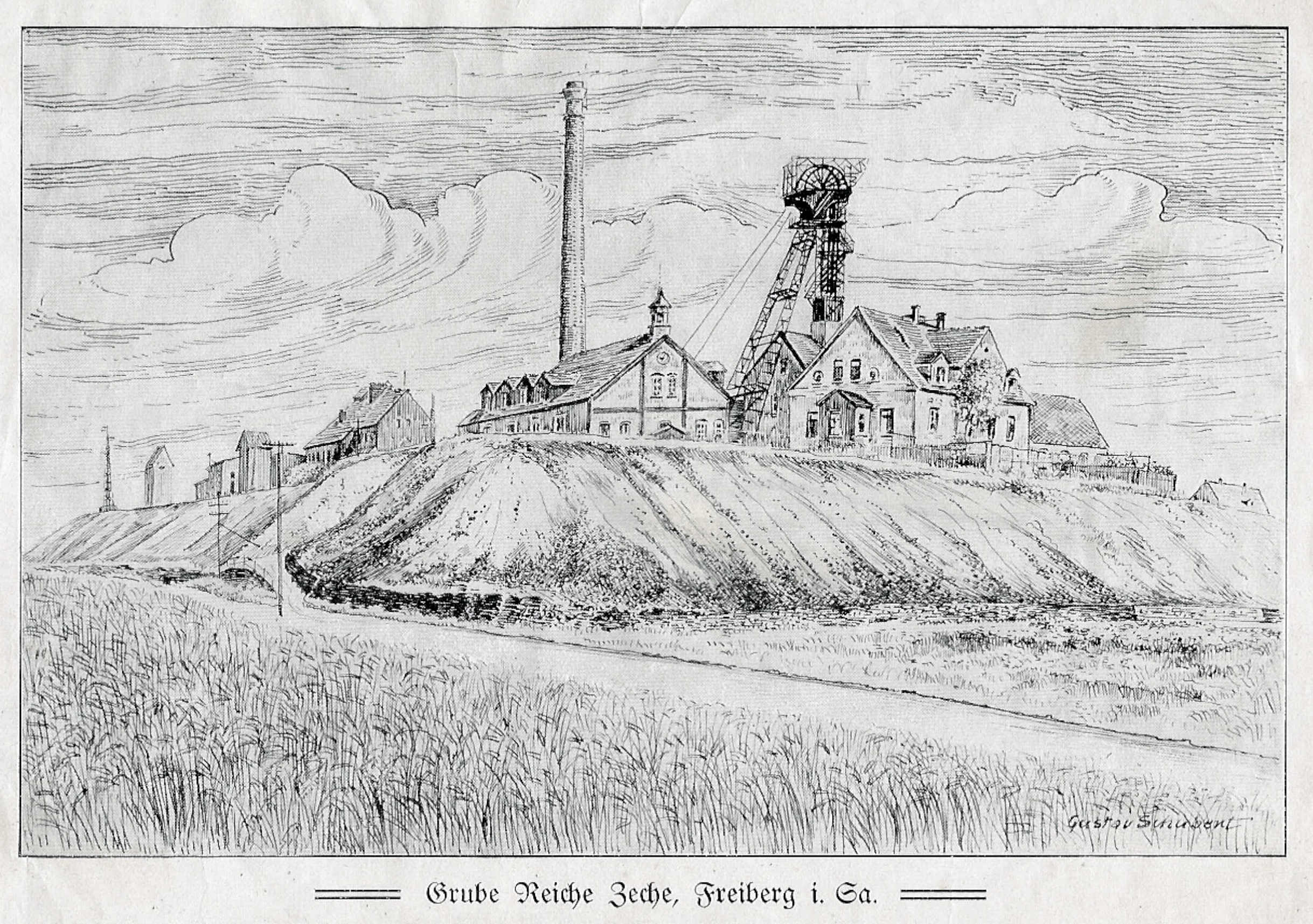 mine Reiche Zeche near to Freiberg, Saxony, Germany 1920